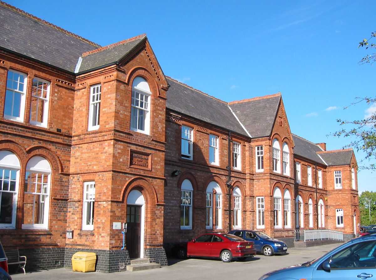 Children's home and schools of the Nantwich Workhouse, Nantwich, Cheshire